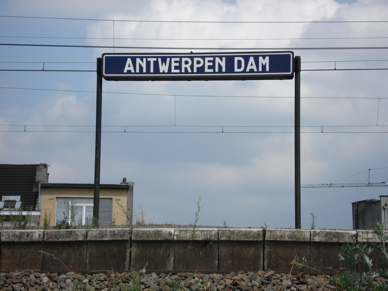 Sign bearing the name of "Den Dam" at Dam Station, Antwerp, Belgium.